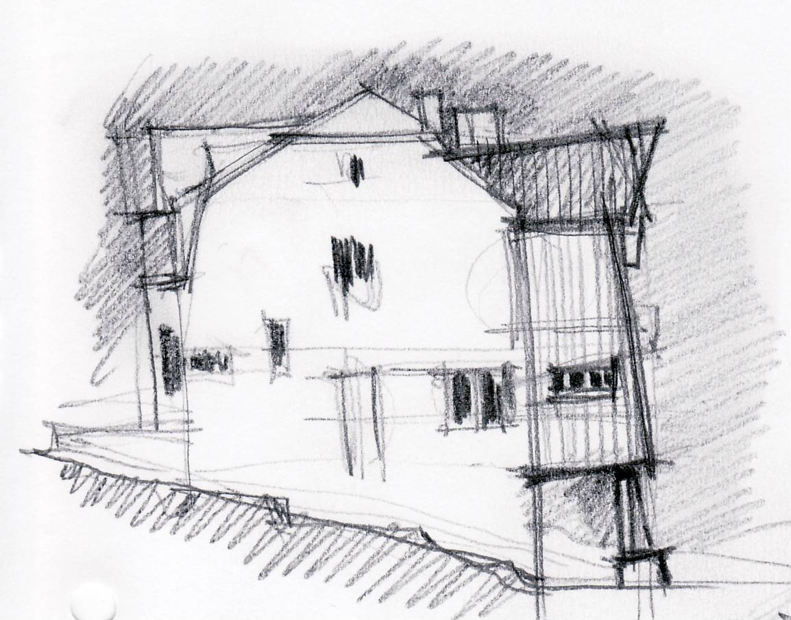 recherche perso